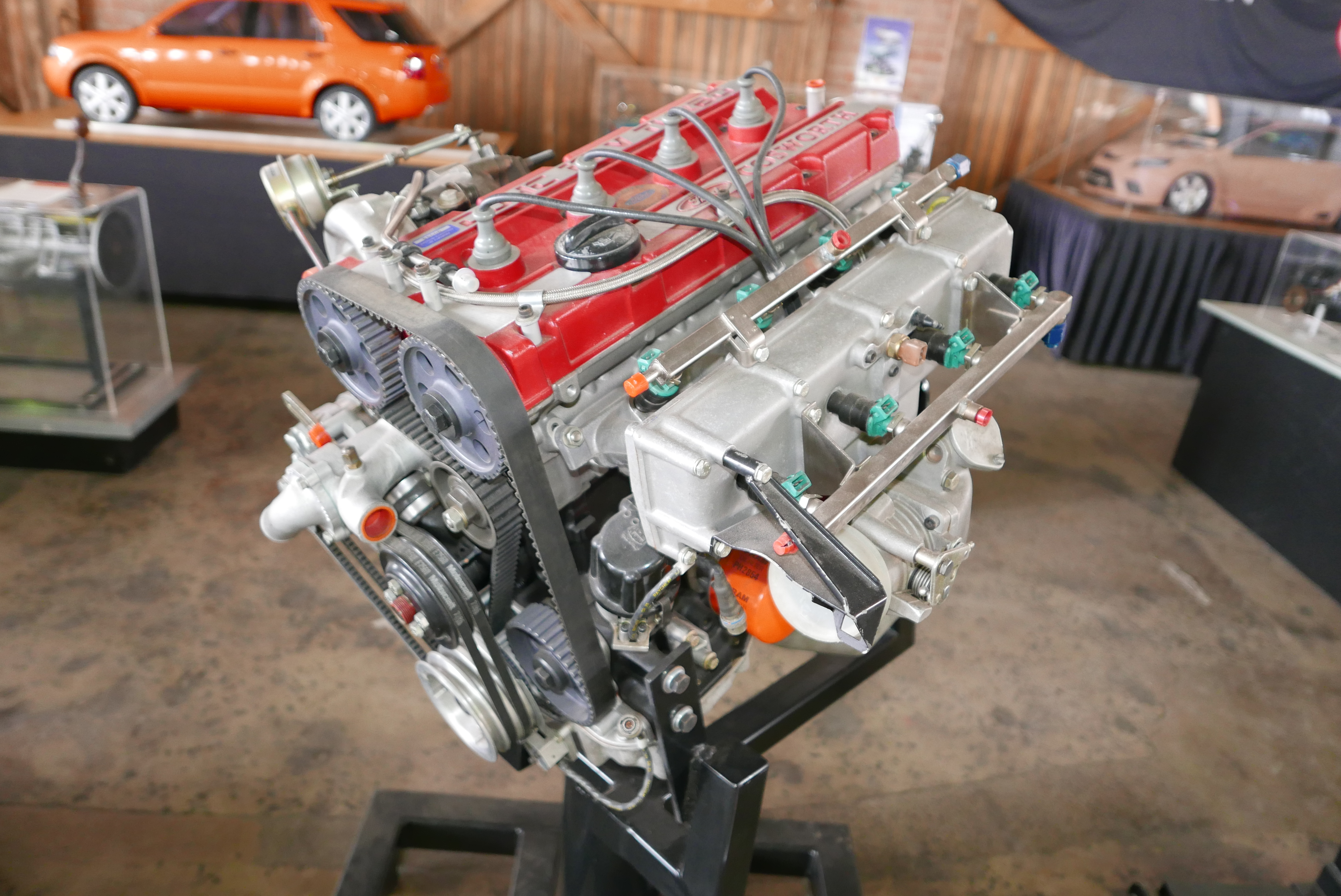 Ford Cosworth YBD (Sierra RS500) engine with a second set of injectors. Photographed at the Geelong Museum of Motoring and Industry, North Geelong, Victoria, Australia.